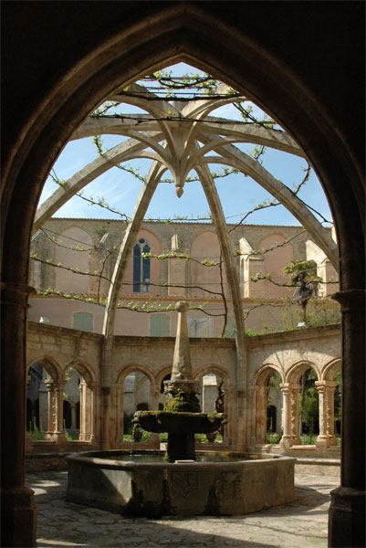 Valmagne abbey. France